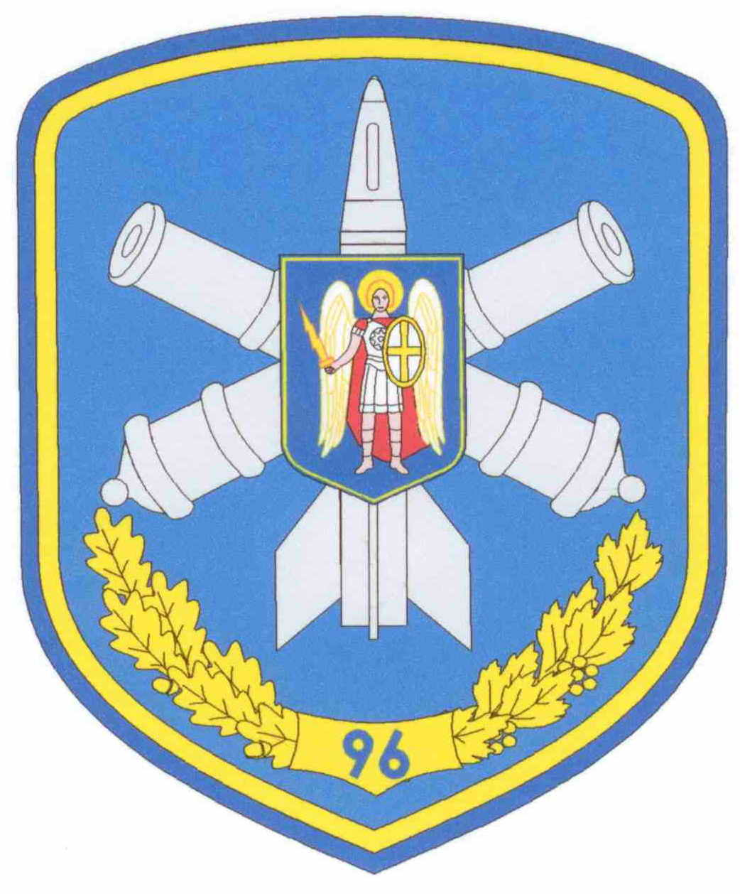 Sleeve patch for 96th Anti-Aircraft Brigade of Ukrainian Air Force